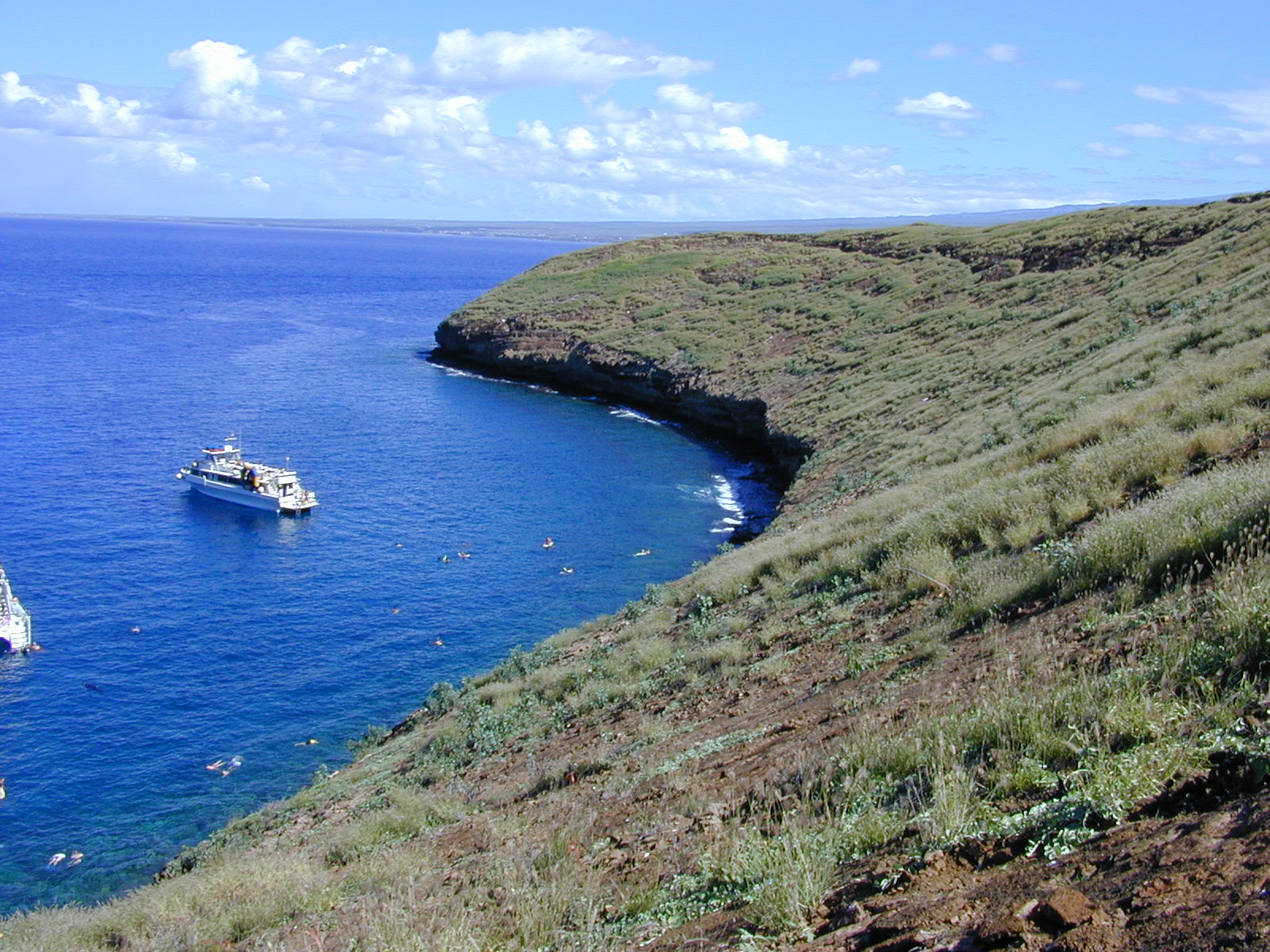 Chloris radiata (habitat). Location: Maui, Molokini